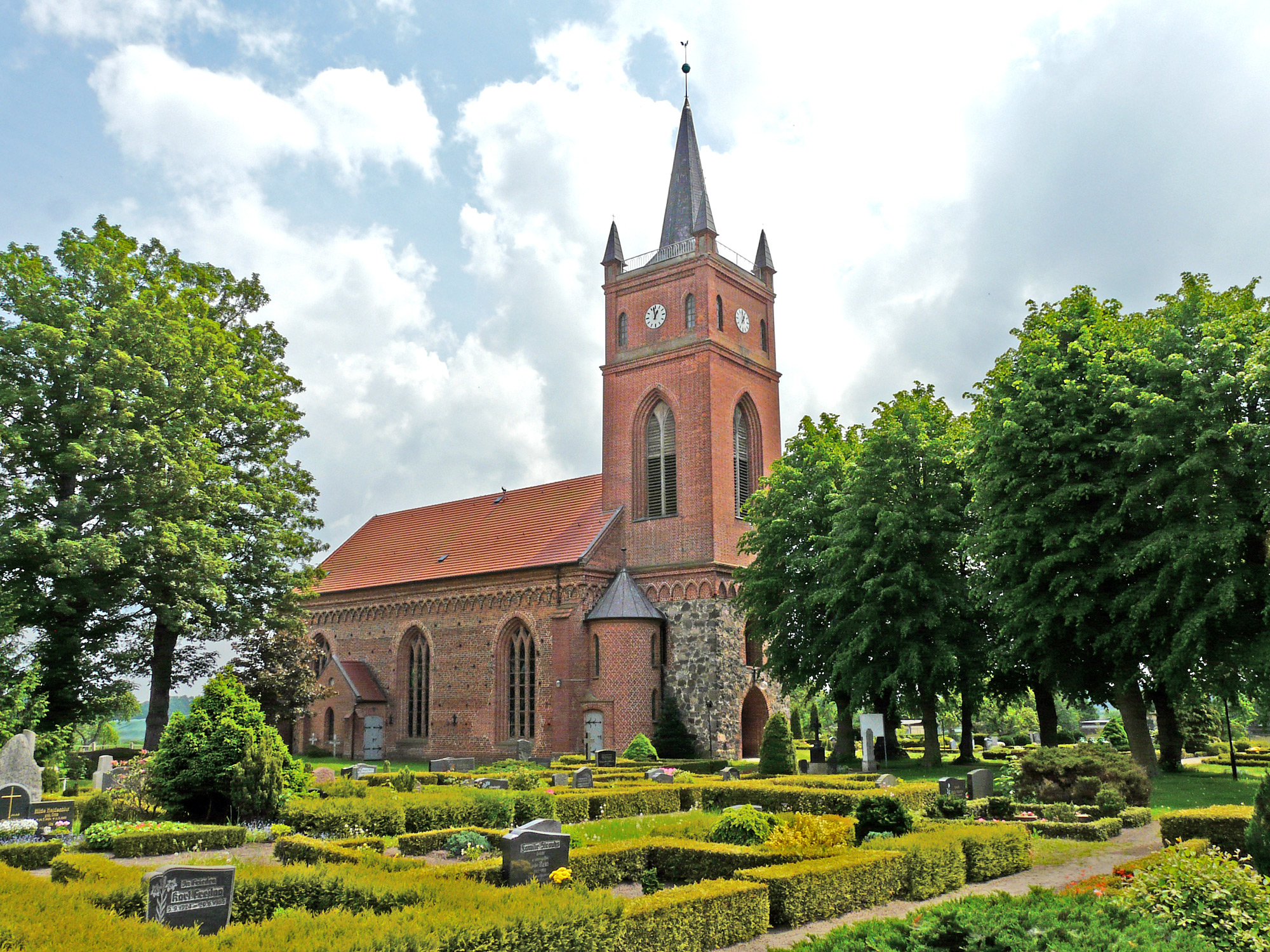 Church in Eldena, district Ludwigslust-Parchim, Mecklenburg-Vorpommern, Germany (view from northwest)